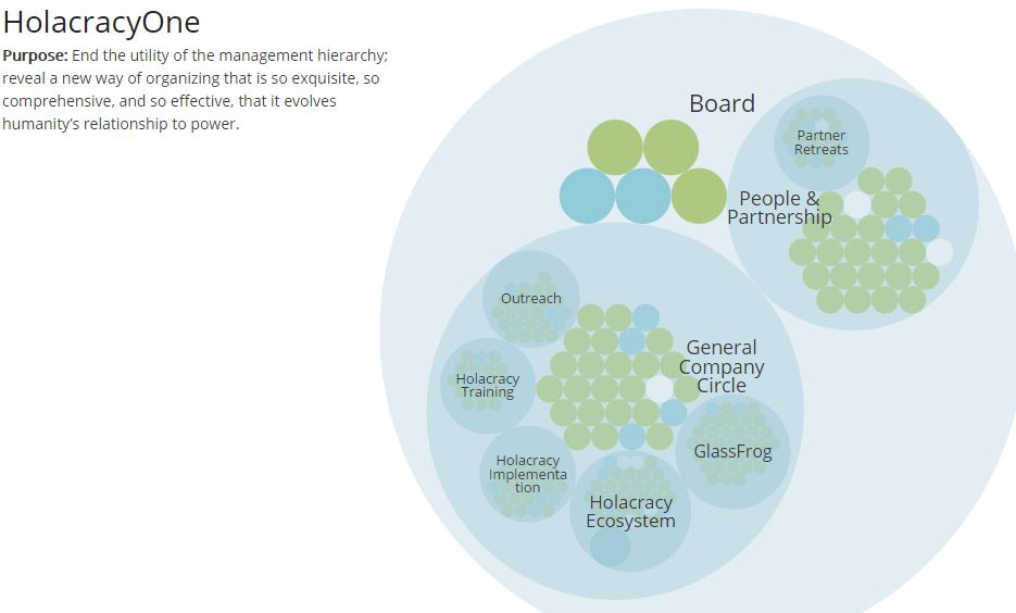 Sample of a Holacracy driven Organisation (HolacracyOne on GlassFrog), 11-2016